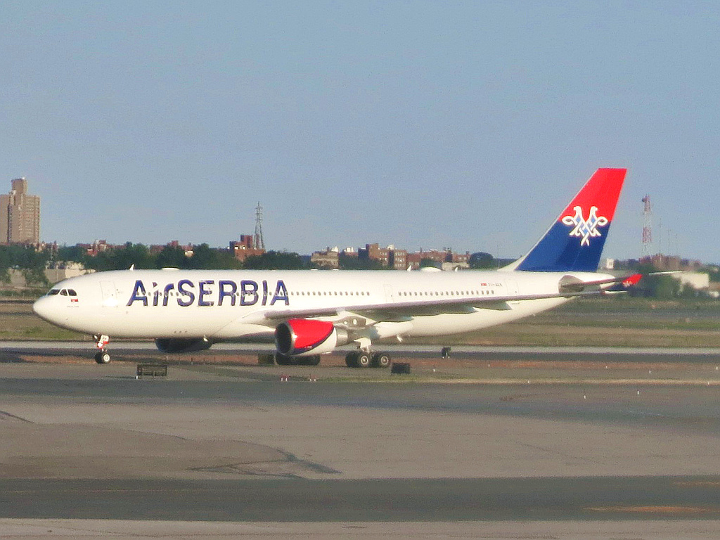 An Air Serbia Airbus A330-200 taxis to a gate at Terminal 4 at JFK Airport in New York after it has been waiting for a gate for some time. Air Serbia had just resurrected the former JAT Airways Belgrade to New York nonstop route that had been suspended following U.S. sanctions placed on Serbia following the breakup of Yugoslavia in 1992 (lasting until 1996), and had only resumed earlier in the week this picture was taken, following 24 years of cancellation. The aircraft is named Nikola Tesla, who has ties to both Serbia and New York in the USA, and is being leased from Indian carrier Jet Airways.